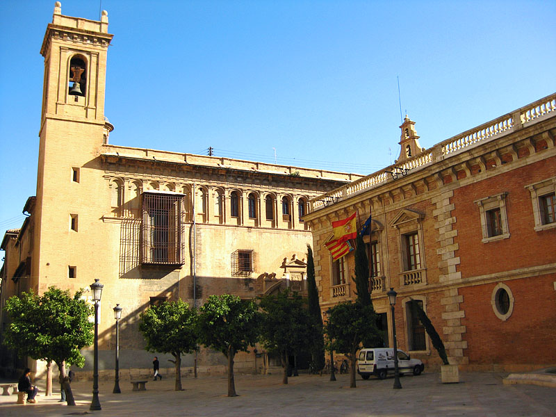 Plaça del Col·legi del Patriarca, Valencia, Spain